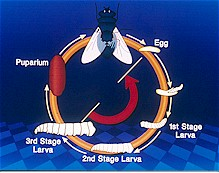 Blowfly instructs us in dirtiness